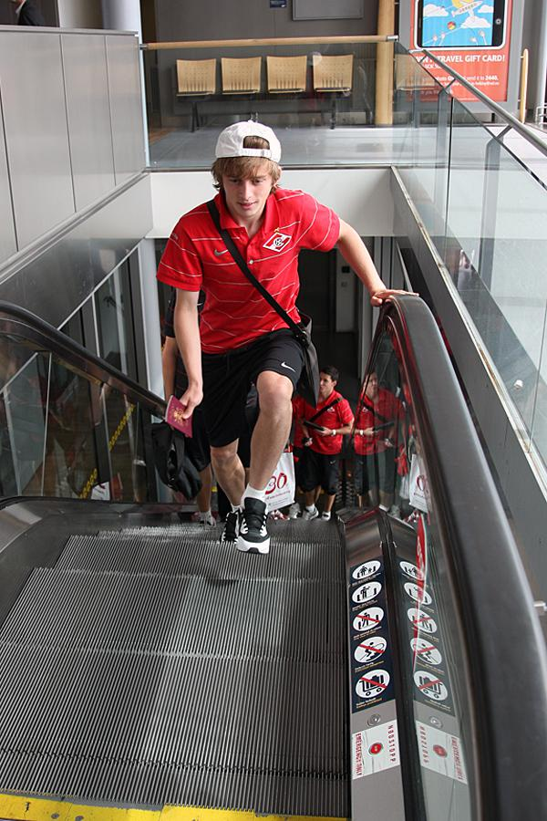 Jano Ananidze coming up the escalator